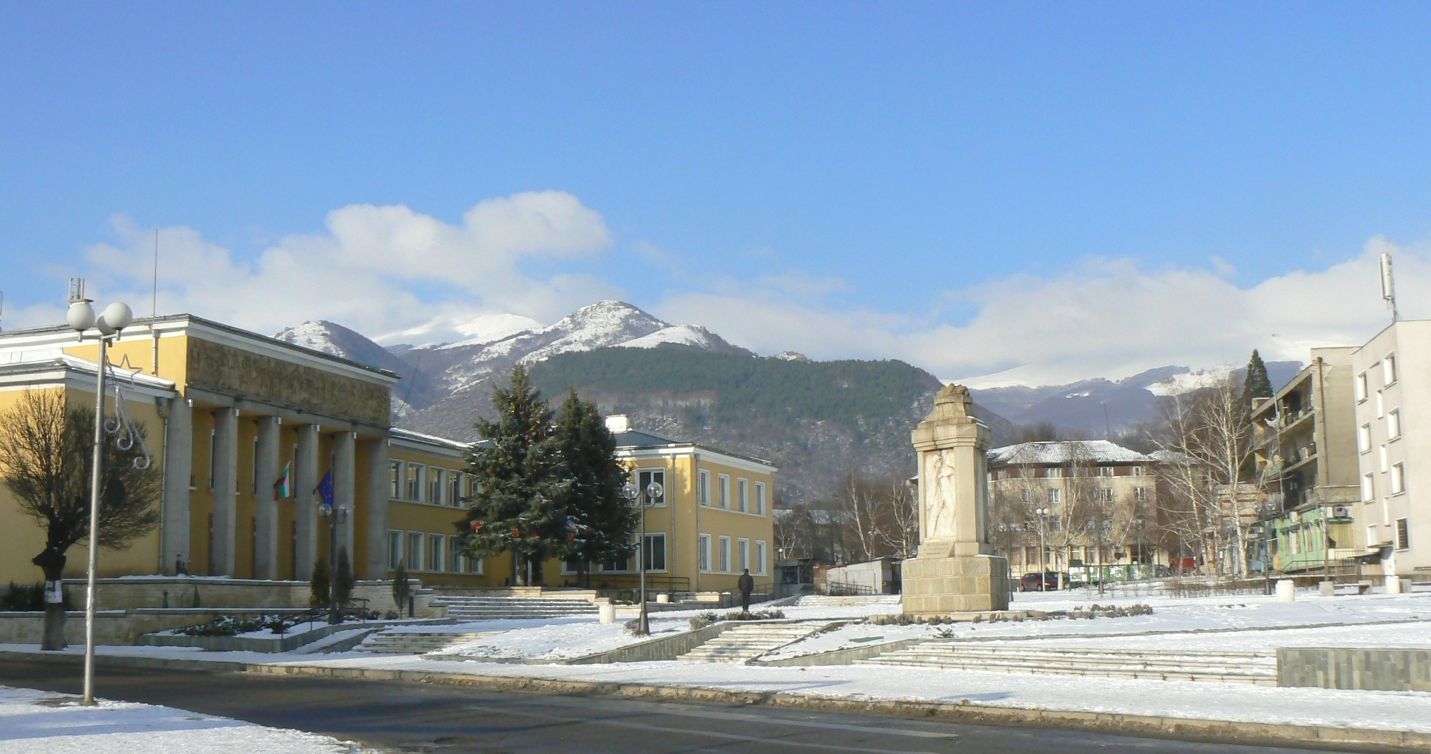 The central square of the town of Zlatitsa, Bulgaria